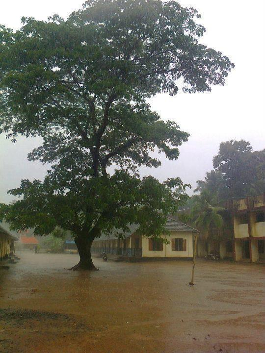 About the school